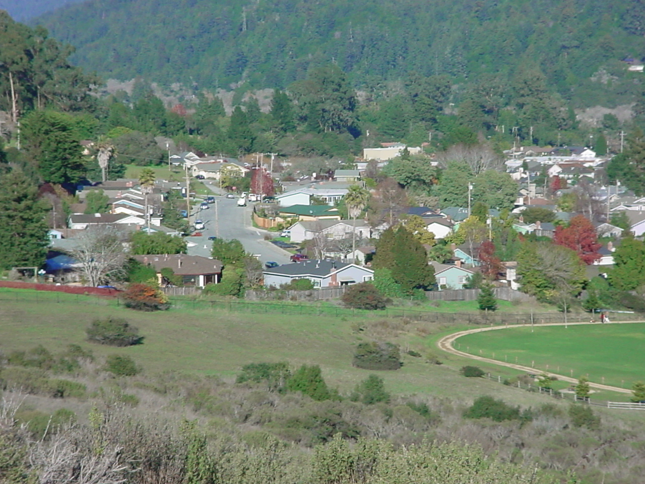 Houses in Soquel.